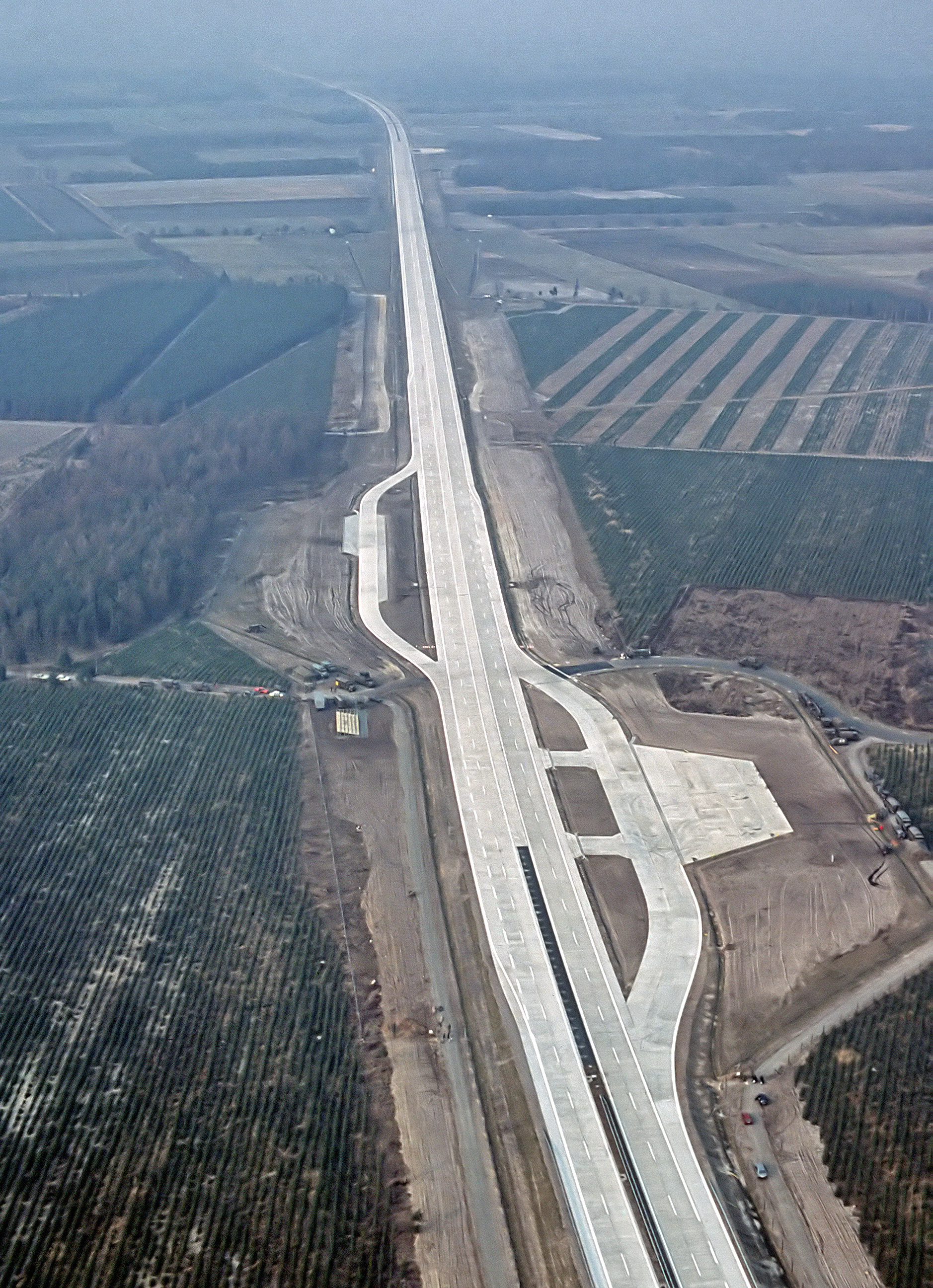 An aerial view of the autobahn A29 near Ahlhorn. construction of A29 just completed in 1984, the emergency-runway has been in the initial design. The highway has been cleared of traffic to allow it to be used to land aircraft during a military NATO exercise "highway 84".